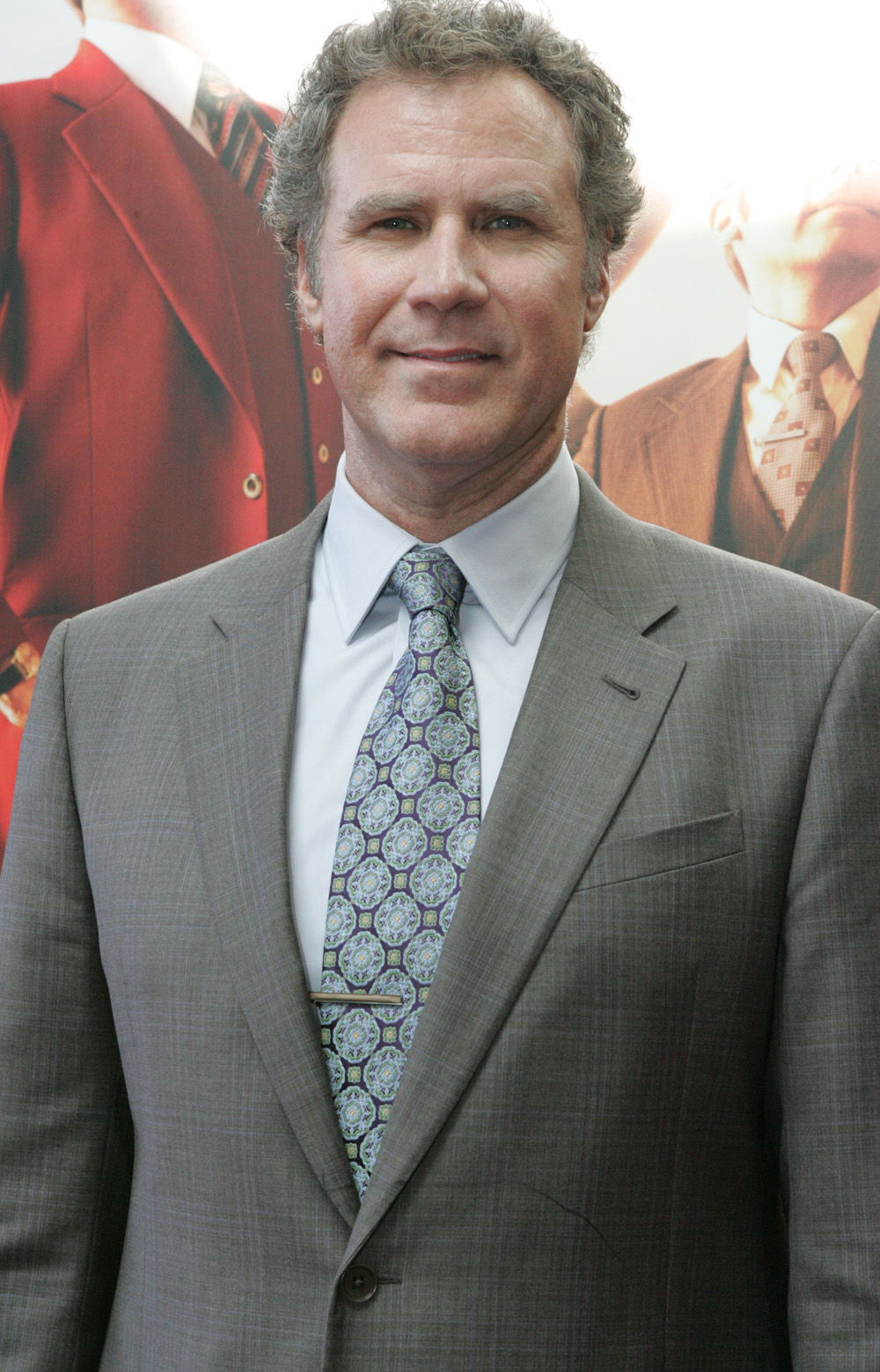 Will Ferrell at Anchorman 2 The Australian Premiere 2013.